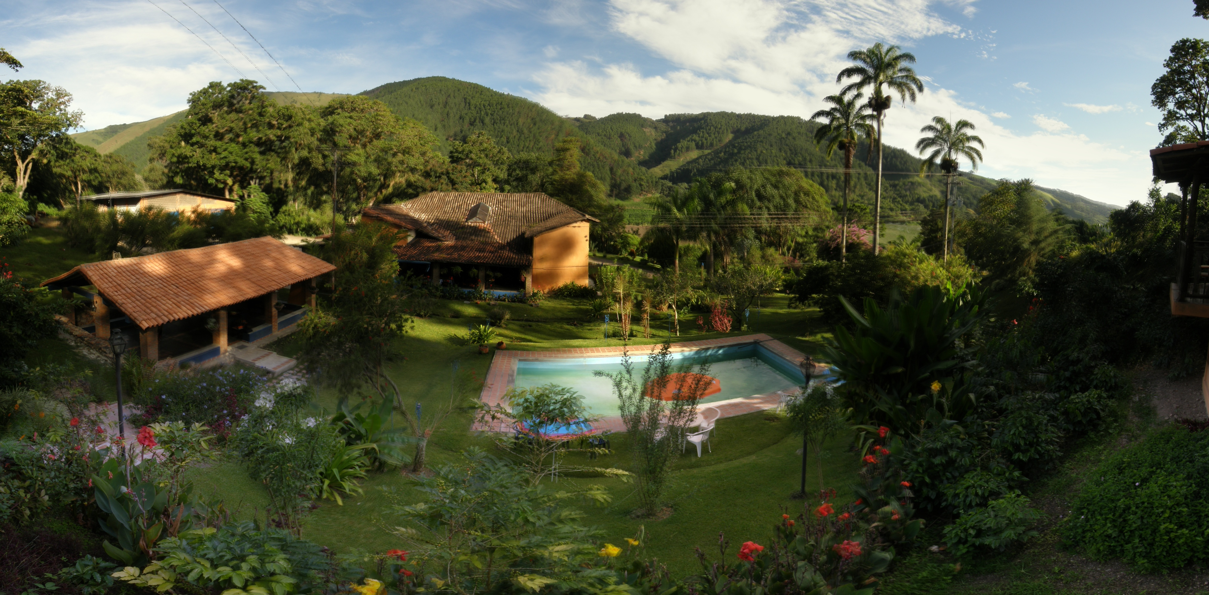 This picture certainly does not deliver any scary message, but wait till it's dark! We arrived at night and were the only guests. There were bats around, so we had to keep the doors closed. The upper floor of the main building provided several rooms for guests (we, however, had been given two guest cottages in the garden). In spite of several bulbs the rooms looked exceptionally gloomy. Pictures on the walls showed old paintings of pale people, supposedly dead. On the stairs, we discovered a collection of very pointed metal tools hanging on the wall. Just at this very moment, the lights went out. There was a power failure (we should get used to them) and a bat flying nearby scared us even more. Well, we survived. Candles were lit, and soon electricity came back.